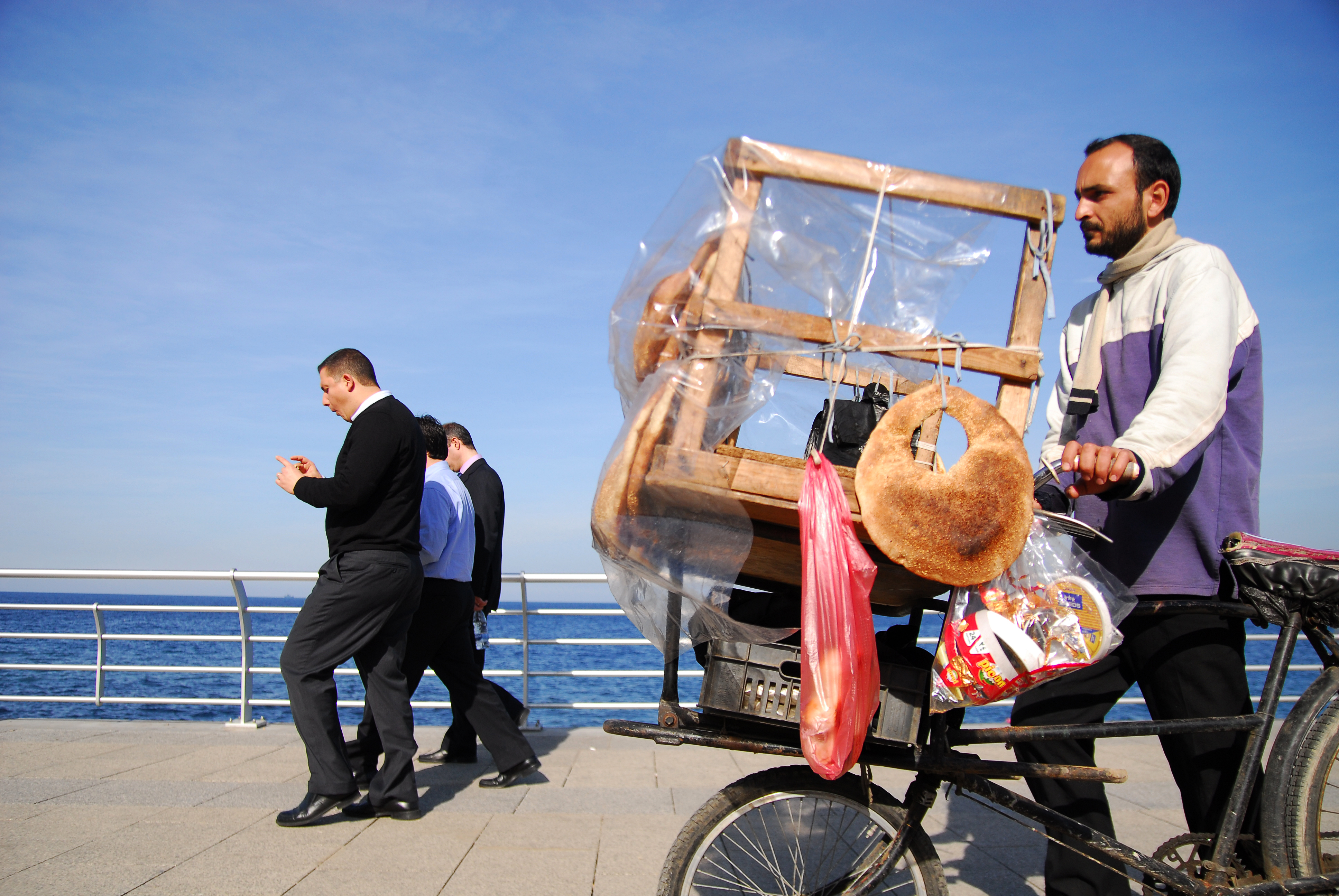 This type of bread is something unique in my experience. They're hollow, and have a handle, giving the impression of a handbag. Usually the vendors fill them with cheese and spices, price $1.